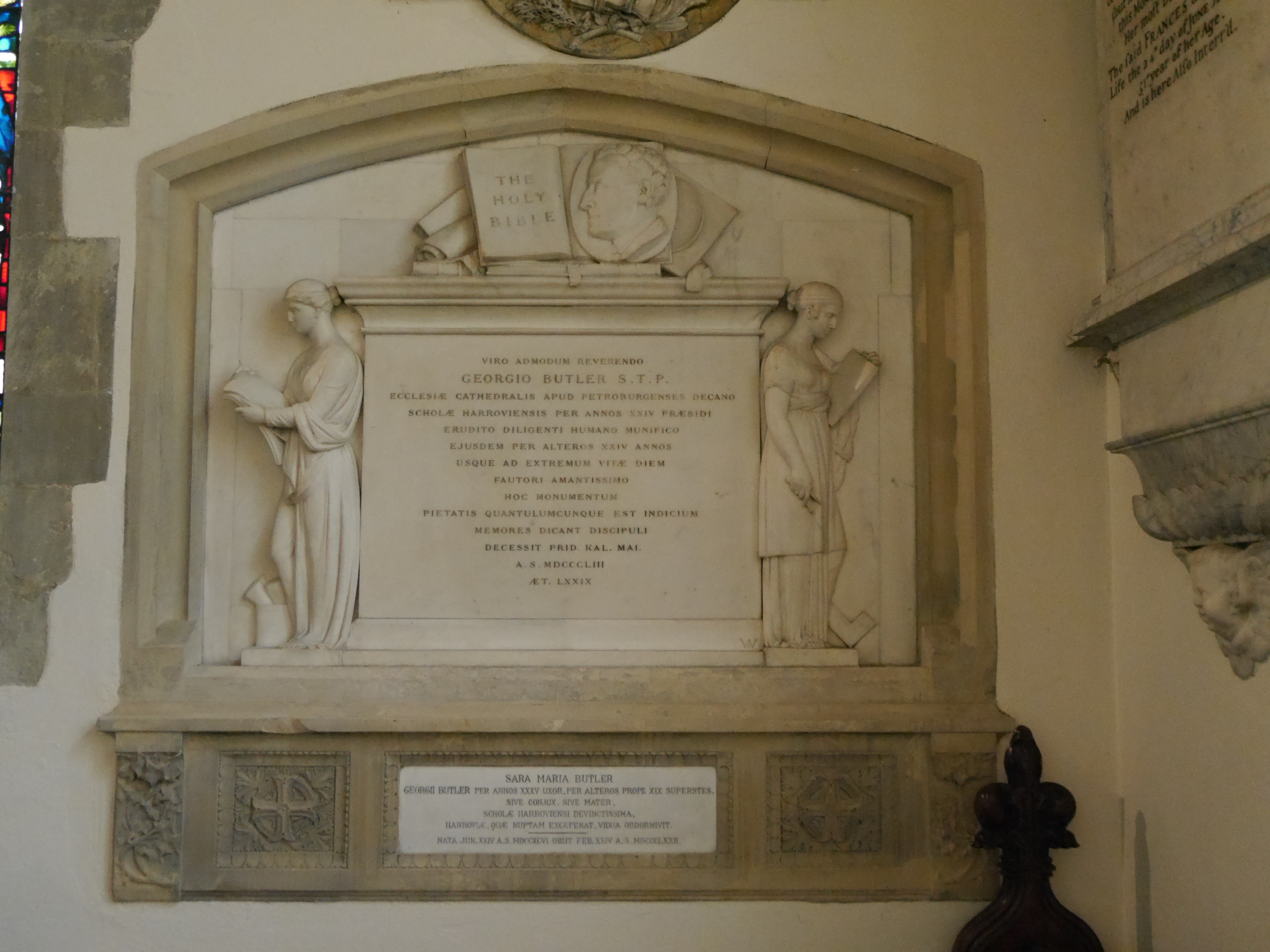 St Mary's, Harrow on the Hill, 2015